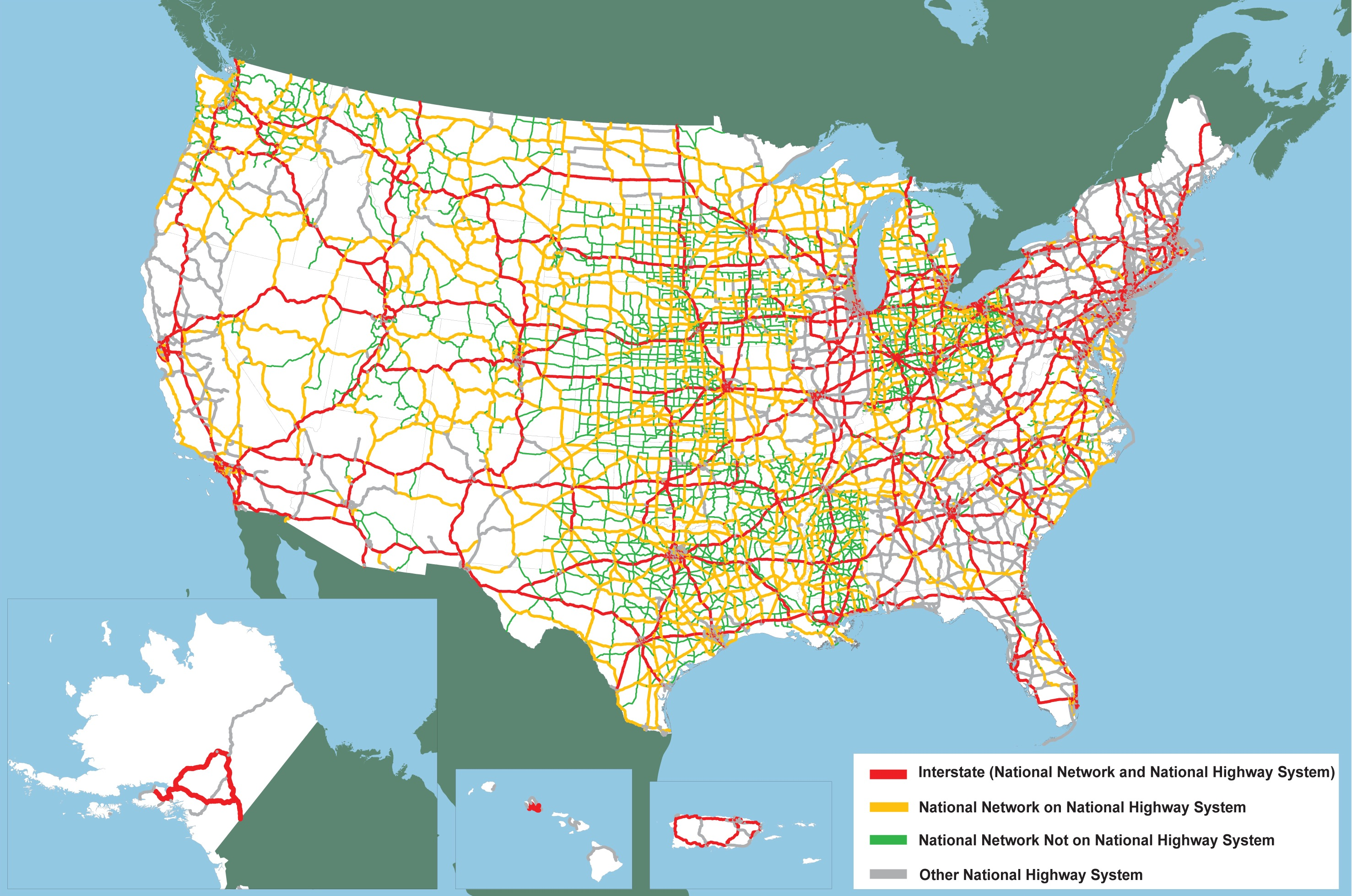 Map of the "National Network for Conventional Combination Trucks, 2009". Carried the following caption in the original:Notes: This map should be be interpreted as the official National Network and should not be use for truck size and weight enforcement purposes. The National Network and the National Highway System (NHS) are approximately 200,000 miles in length, but the National Network includes 65,000 miles of highways beyond the NHS, and the NHS encompasses about 50,000 miles of highways that are not on the National Network. "Other NHS" refers to NHS mileage that is not included on the National Network. Conventional combination trucks are tractors with one semitrailer up to 48 feet in length or one 28-foot semitrailer and one 28-foot trailer. Conventional combination trucks can be up to 102 inches wide.Source: U.S. Department of Transportation, Federal Highway Administration, Office of Freight Management and Operations, Freight Analysis Framework, version 2.2, 2009